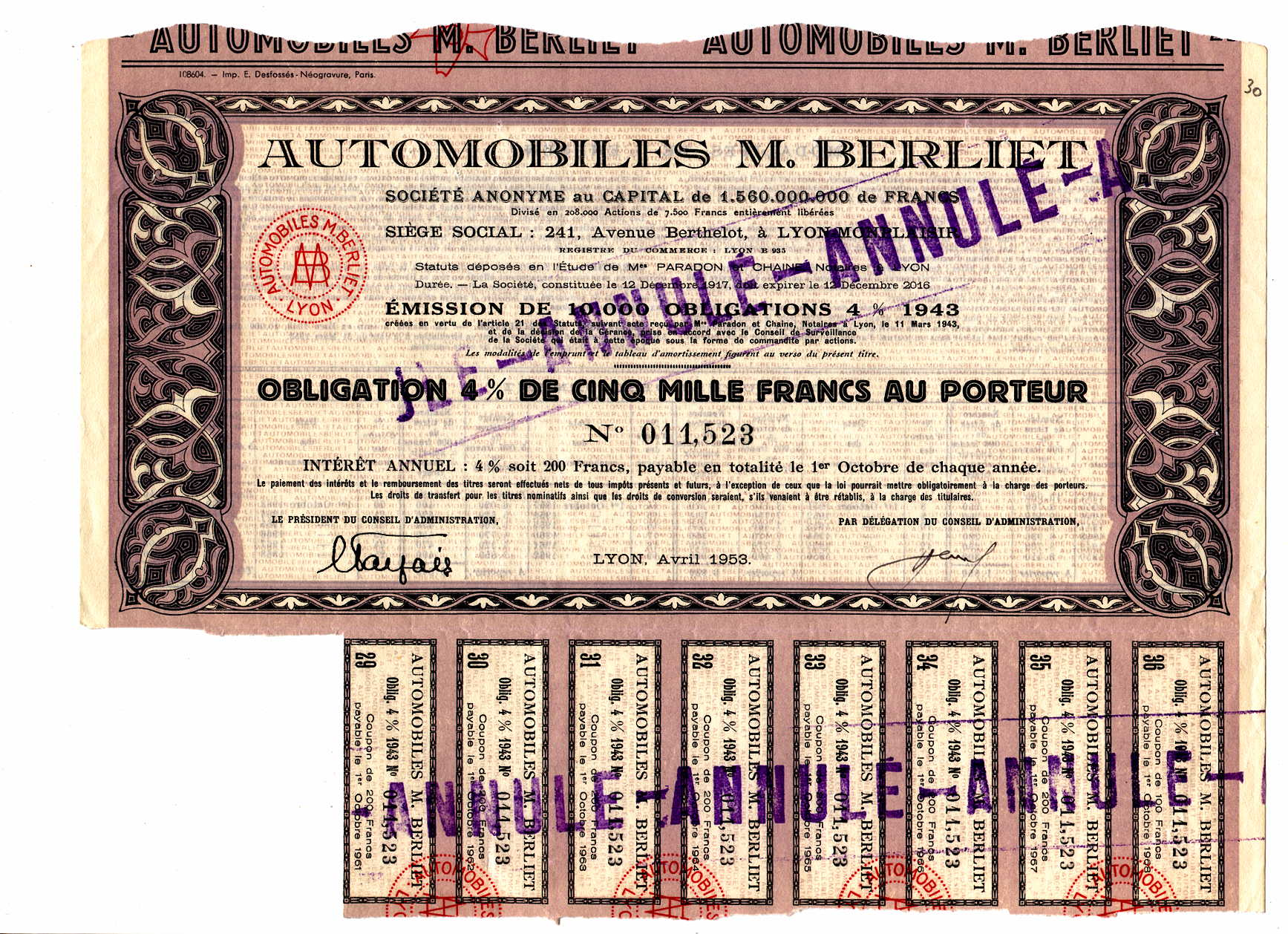 Scan from historic paper taken by user